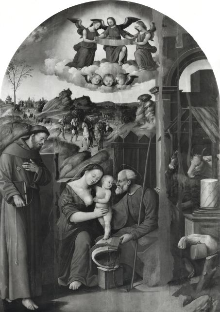 Nativity